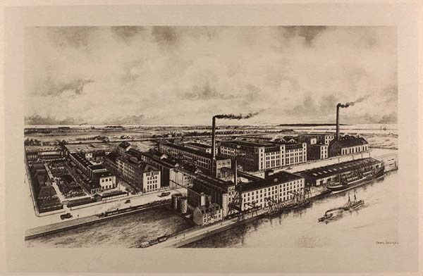 Birds-eye-view of Dansk Sojakagefabrik, Copenhagen.